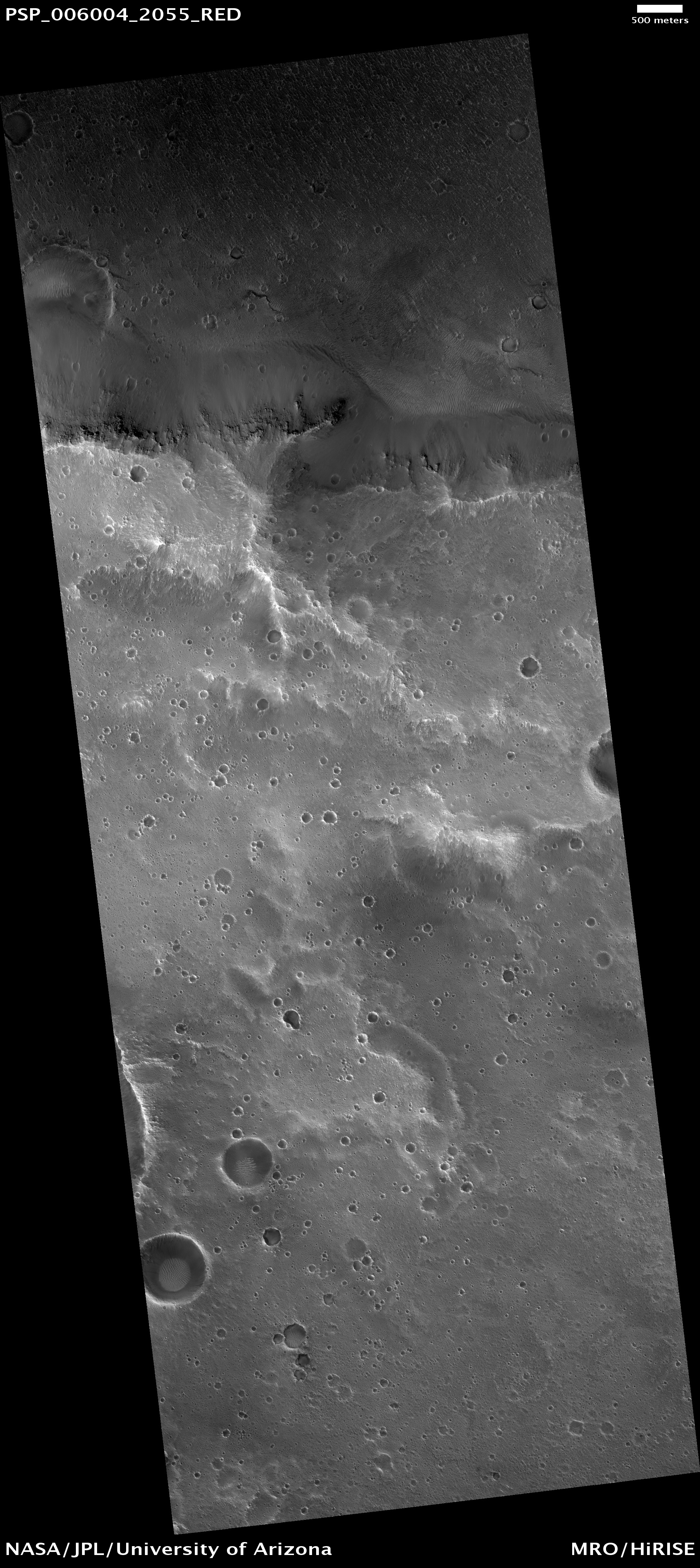 Kipini Crater, as seen by hirise. Location is 25.3 degrees north latitude and 328.4 degrees east longitude. Image was taken by the Mars Reconnaissance Orbiter's HiRISE. The HiRISE camera was built by Ball Aerospace and Technology Corporation and is operated by the University of Arizona. Image courtesy NASA/JPL/University of Arizona.